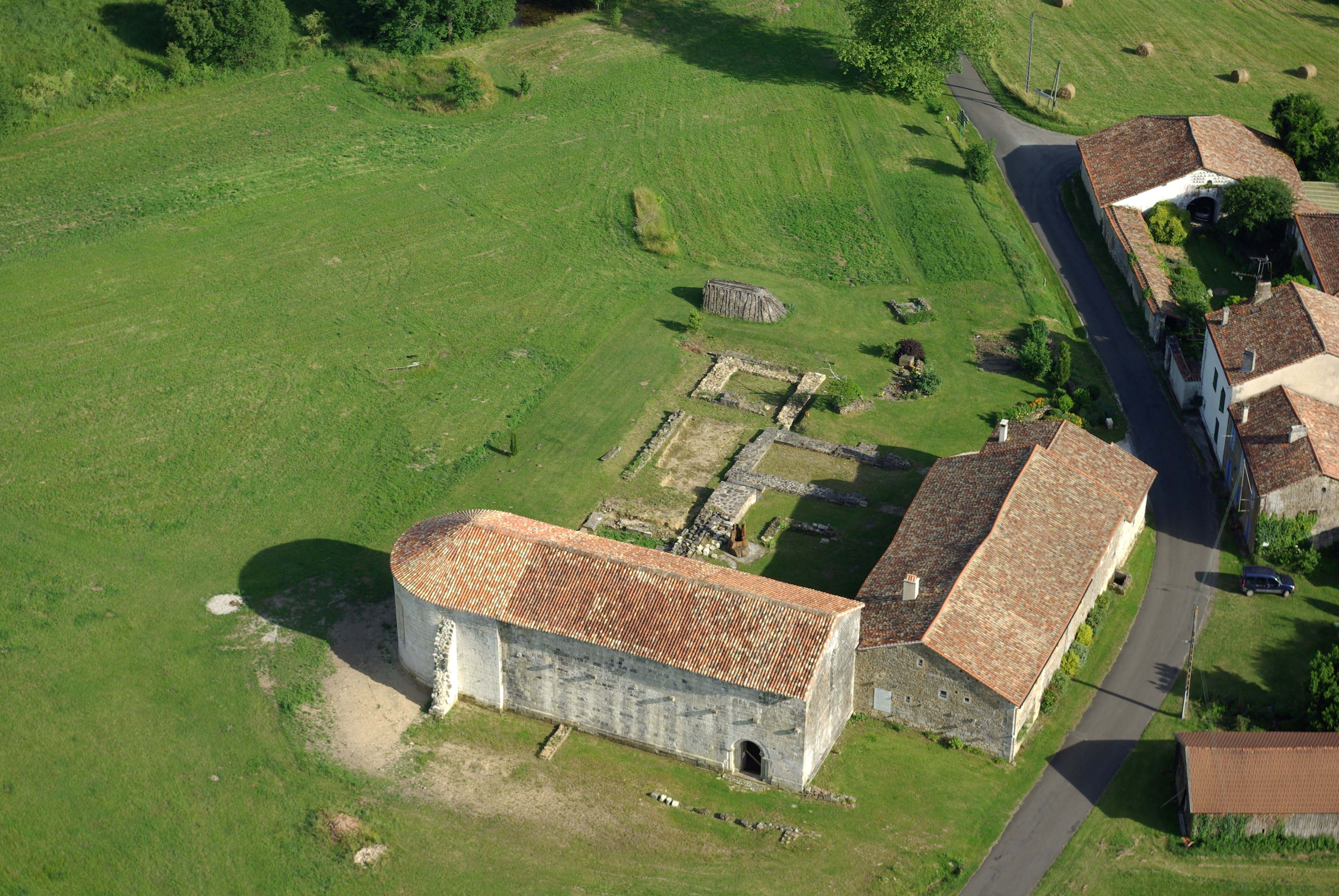 Aerial photograph of Priory of Rauzet, Combiers, Charente, SW France